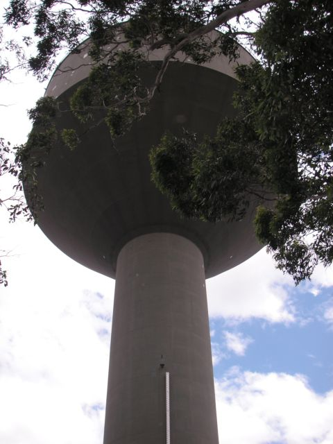 Tall water tower which dominates the skyline of Acacia Gardens NSW